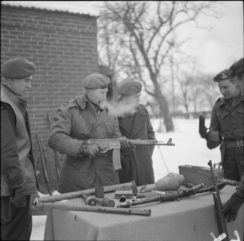 The British Army in North-west Europe 1944-45 Lt-Gen E H Barker, GOC 8th Corps, inspecting various captured German weapons during an inspection of 3rd Division positions, 26 January 1945.